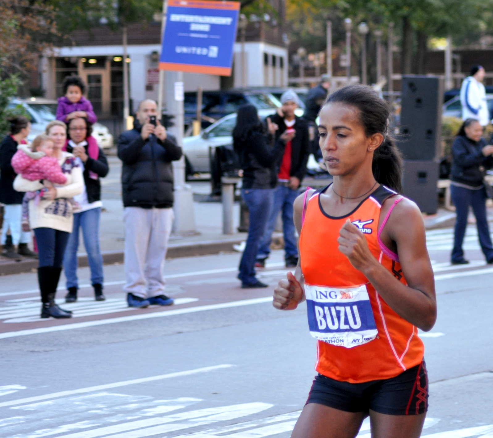 Bizunesh Deba at nyc marathon 2011